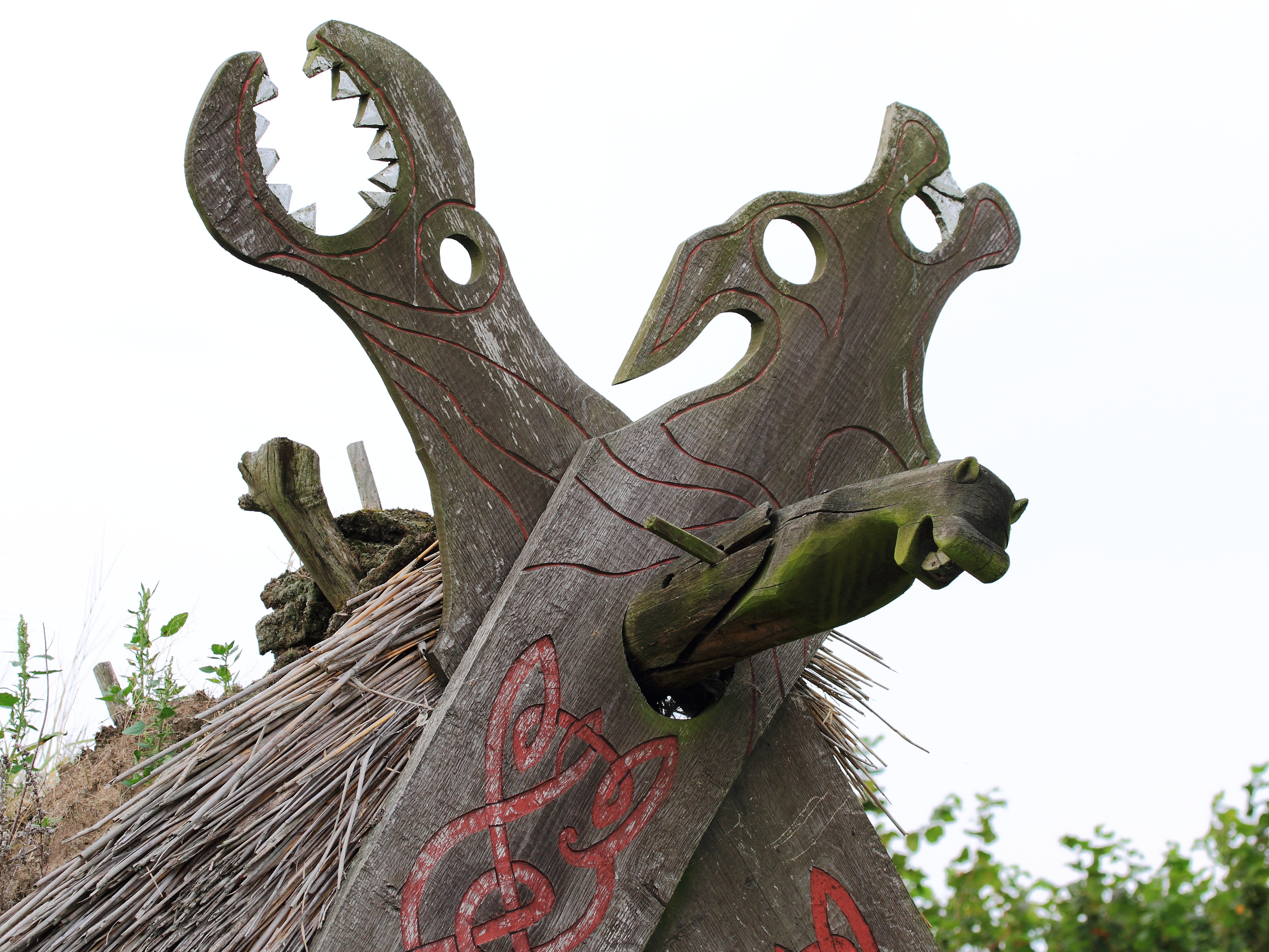 Gable cross in the open-air museum of Trelleborg (Slagelse).